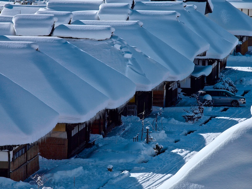 Houses under snow in Shimogō, December 2010. Olympus E-620